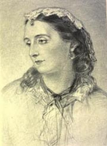 Sketch of Helen Blackwood (1807-1867)